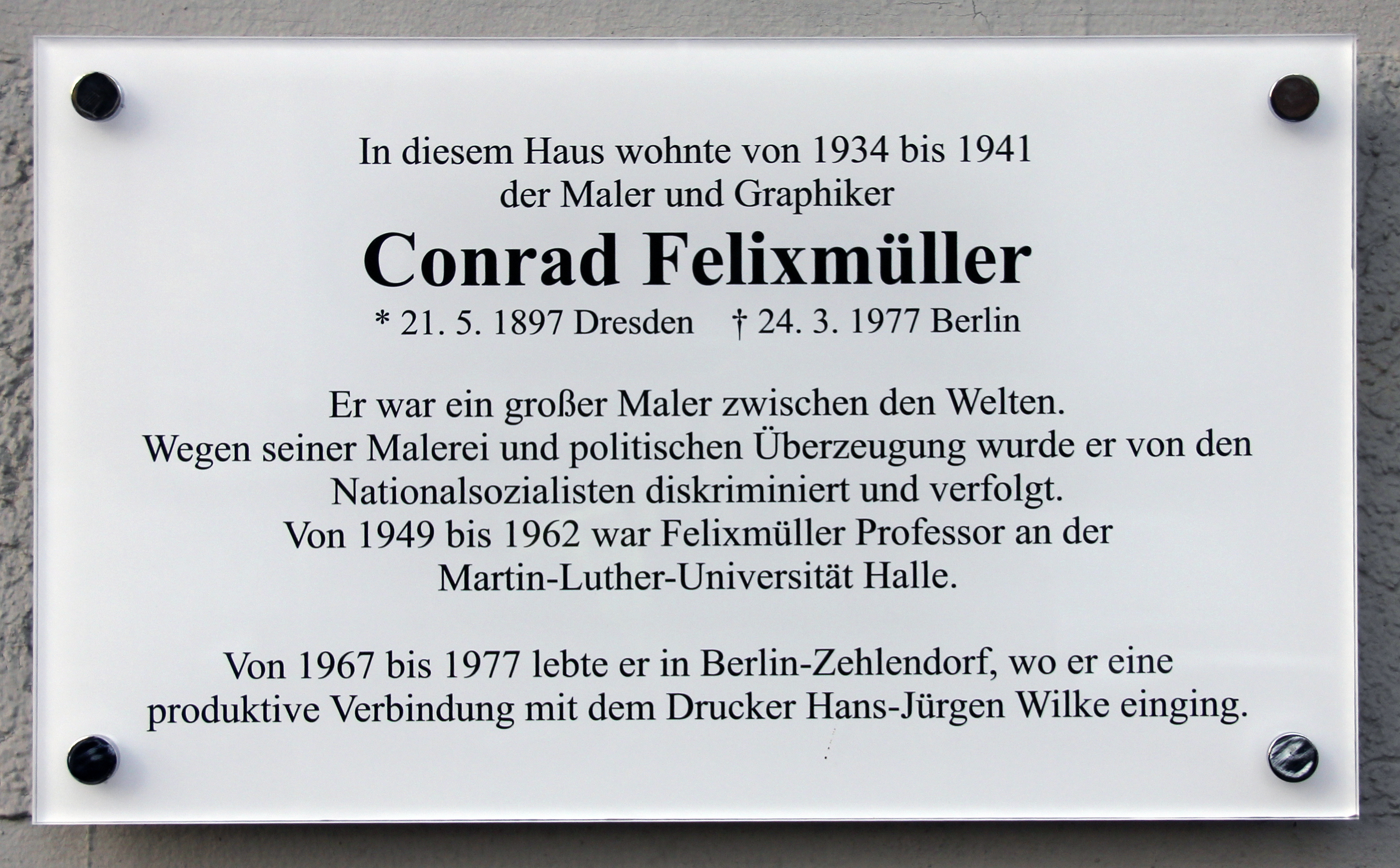 Memorial plaque, Conrad Felixmüller, Rönnestraße 18, Berlin-Charlottenburg, Deutschland